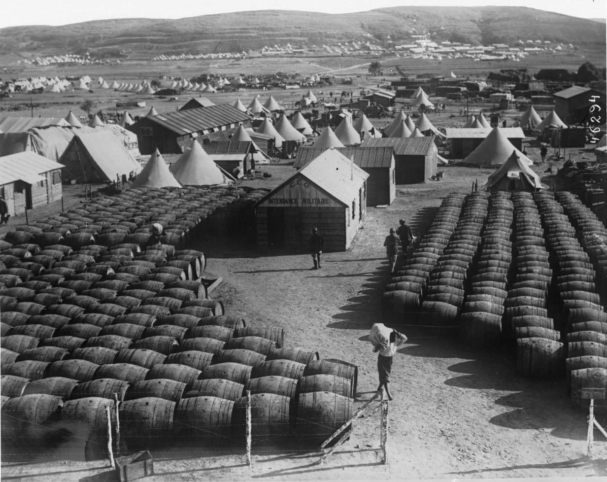 French Camp to the Dardanelles in 1915 with supply (building military stewardship center of the photo).